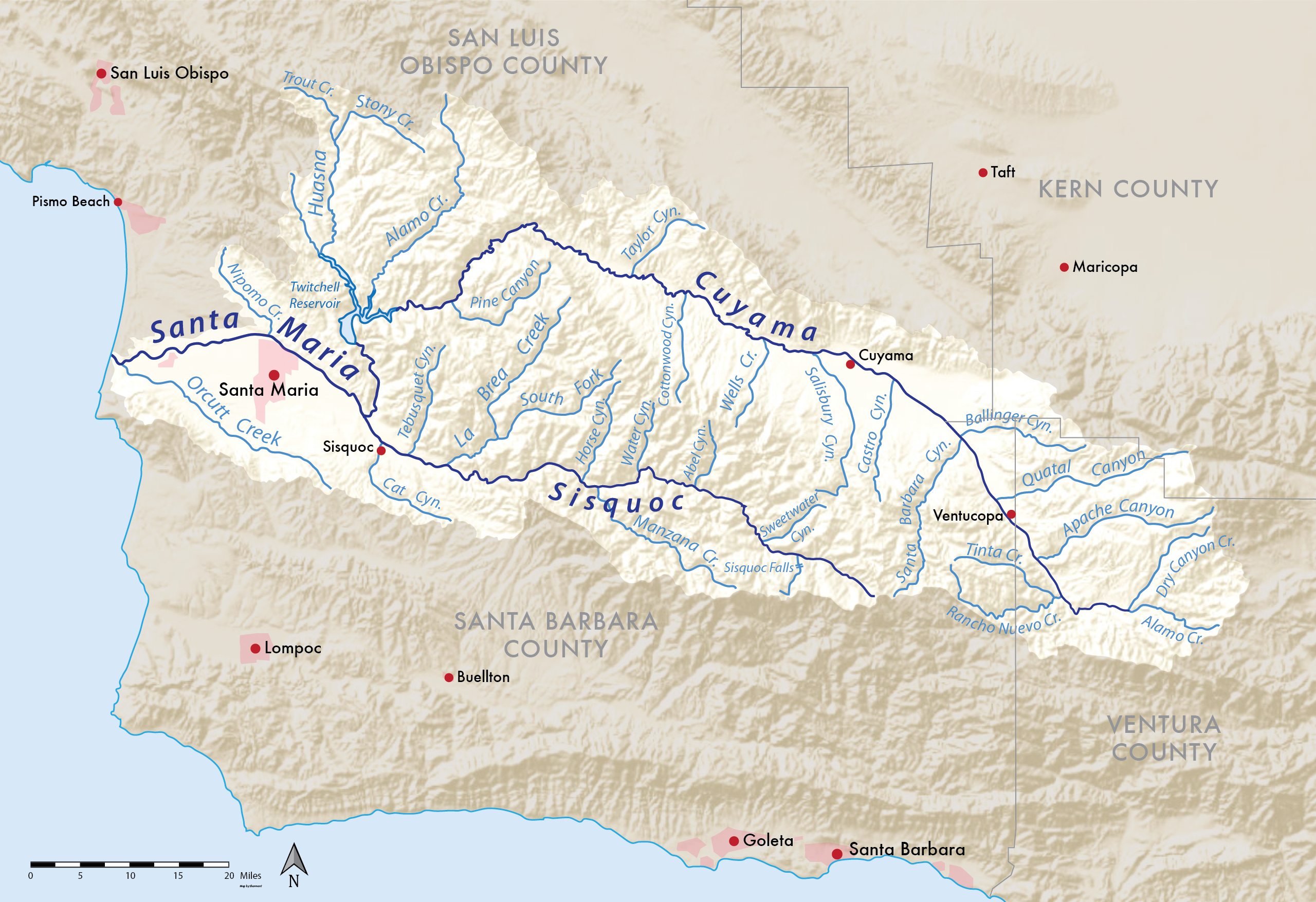 Map showing the Santa Maria River watershed in Central California, with its main tributaries Cuyama River and Sisquoc River. Shaded relief and watershed boundary data from USGS National Map (public domain).